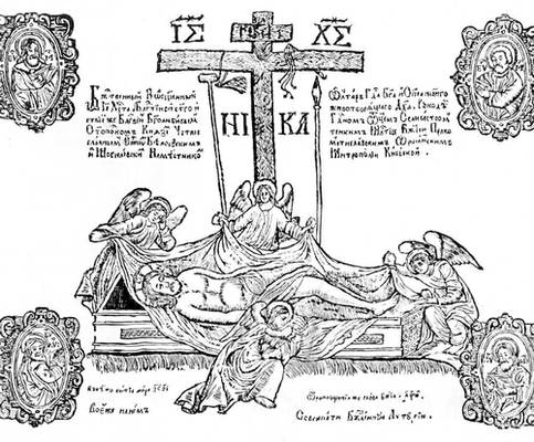 Entombment of Christ. Antimension: wood engraving, printed on textile.